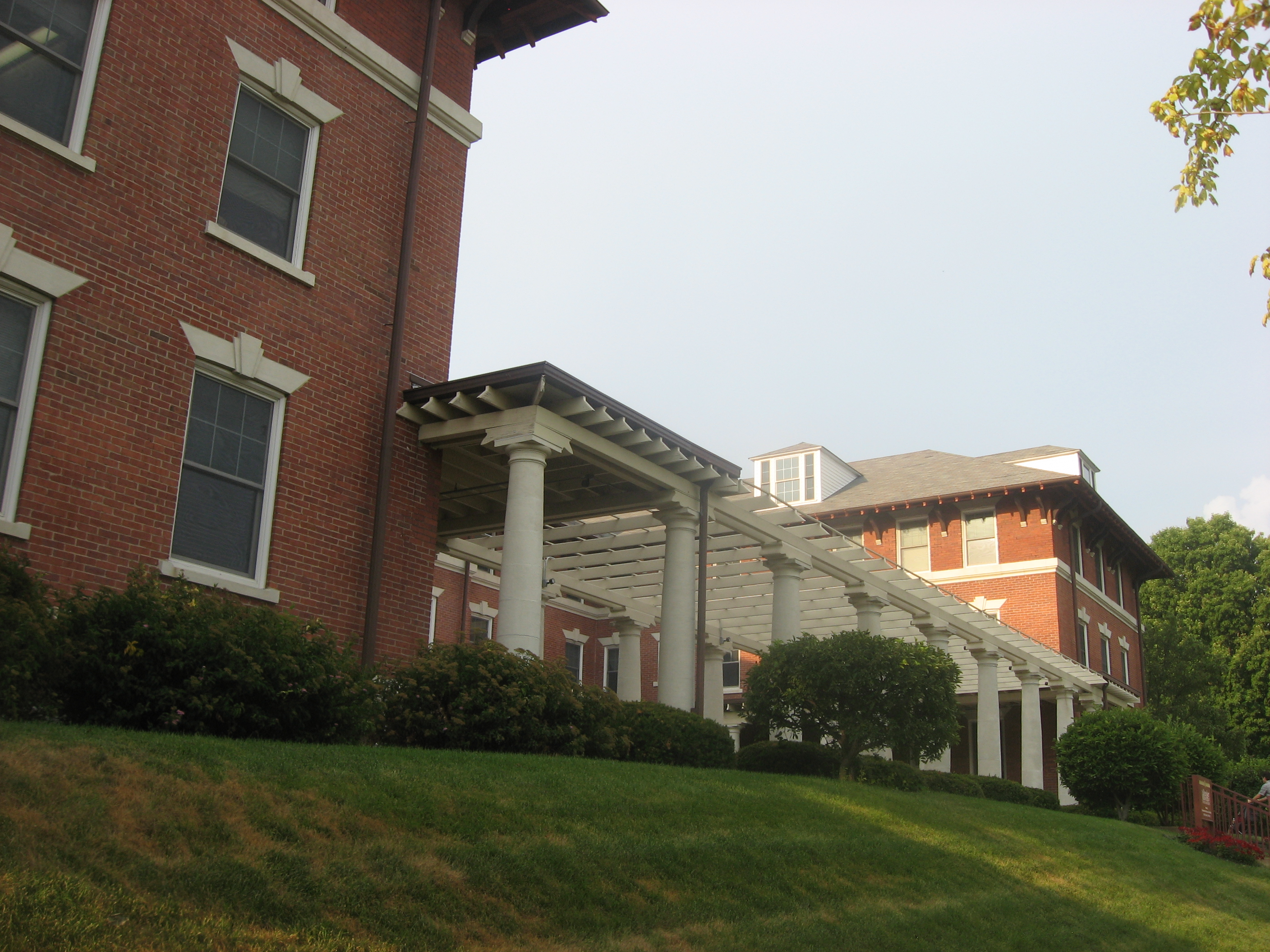 Front of the Westminster Hotel on the campus of Grace College in Winona Lake, Indiana, United States. Built in 1905 and since converted into a Billy Sunday museum, it is part of the Winona Lake Historic District, a historic district that is listed on the National Register of Historic Places.